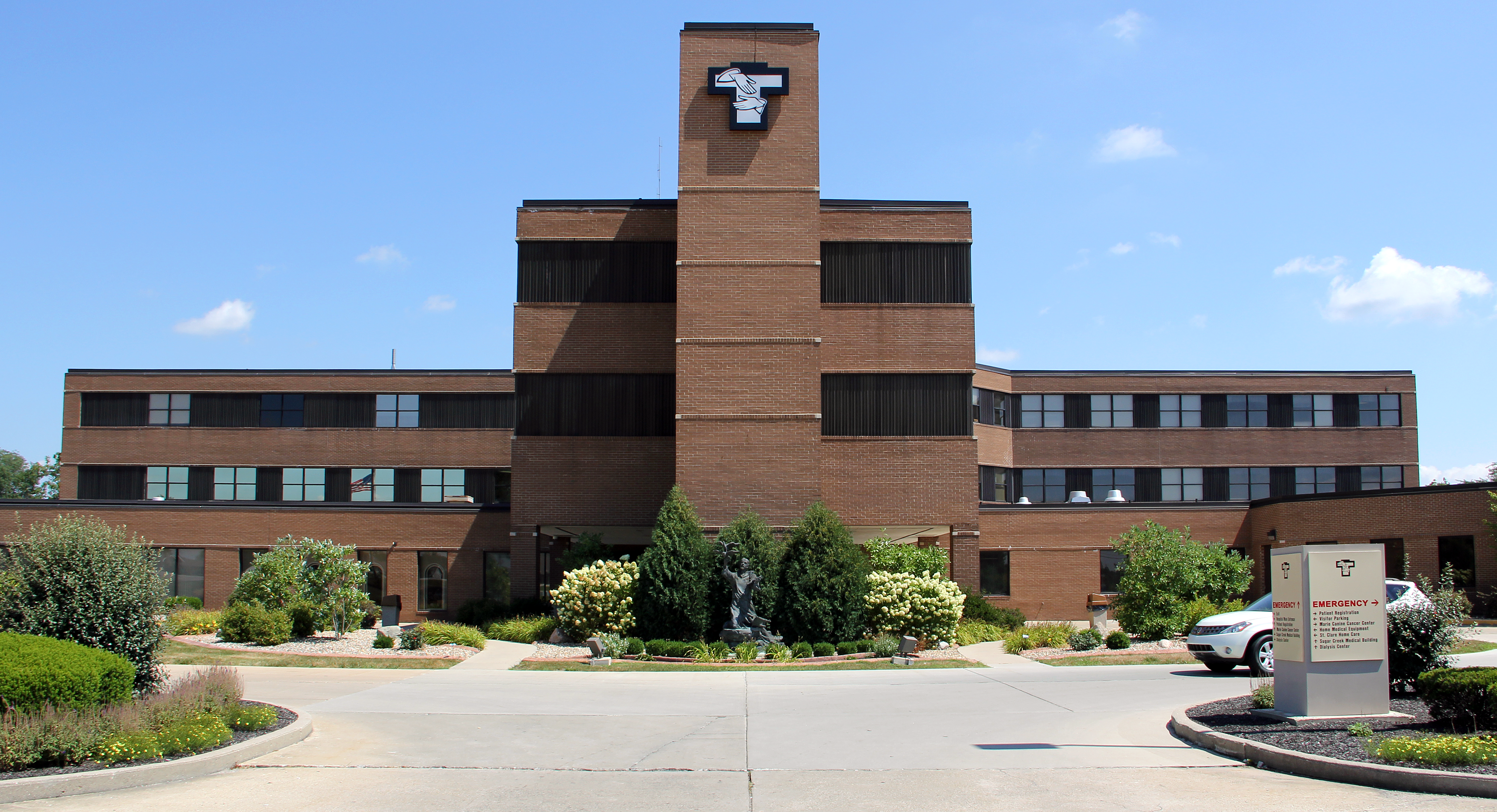 Looking east toward Franciscan St. Elizabeth Health Crawfordsville (formerly St. Clare Medical Center, and now Franciscan Health Crawfordsville) in Crawfordsville, Indiana.